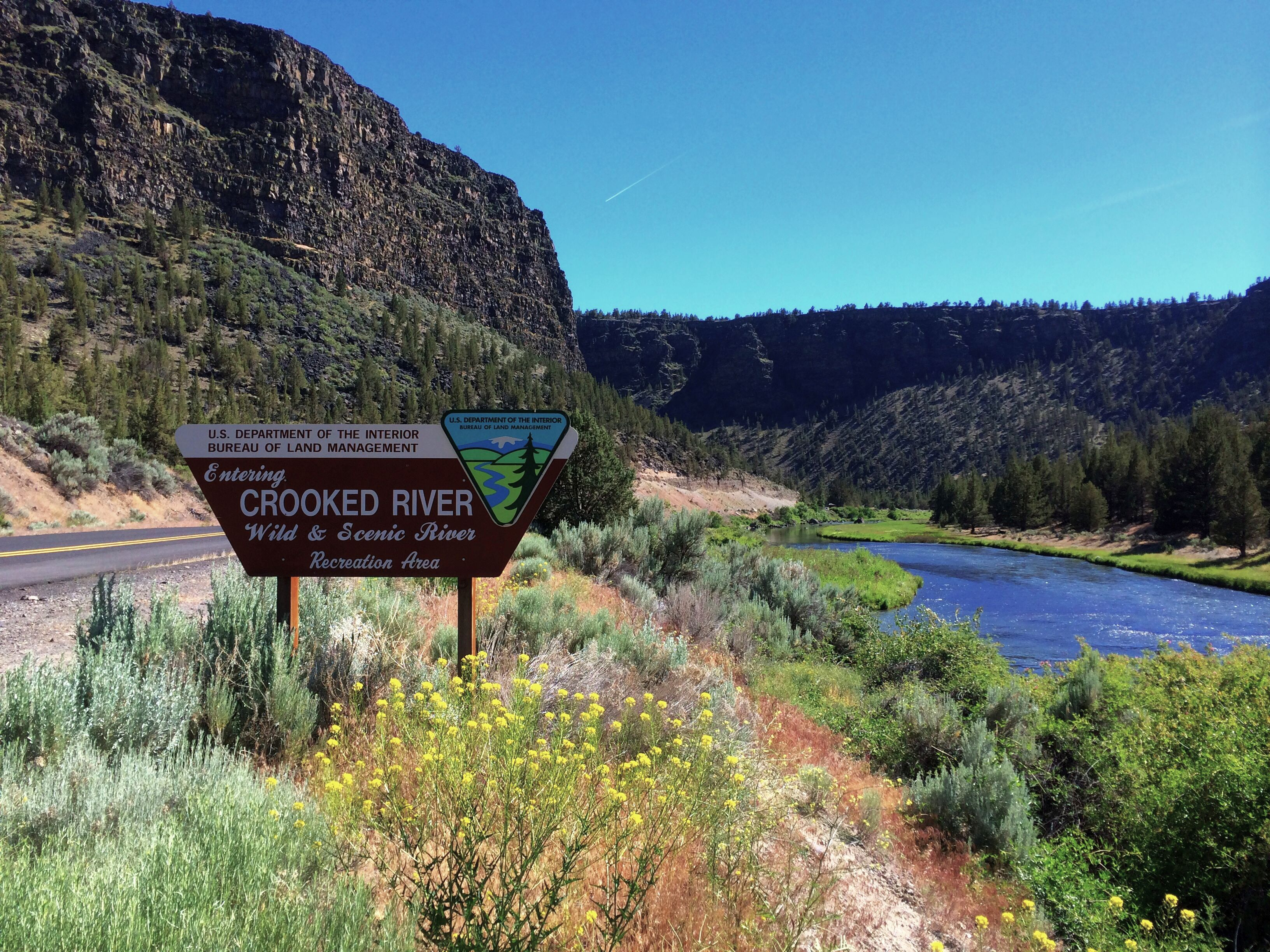 Entering the Lower Crooked Wild and Scenic River Recreation Area, Oregon